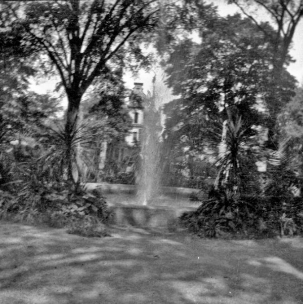 A fountain spraying upwards amidst foliage in a grassy area